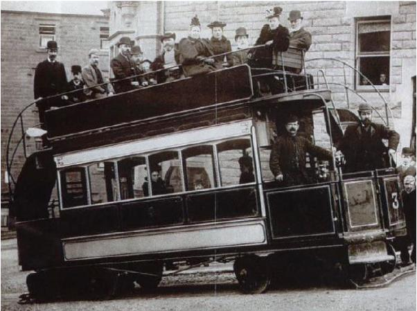 Bank Road Tram circa 1900.